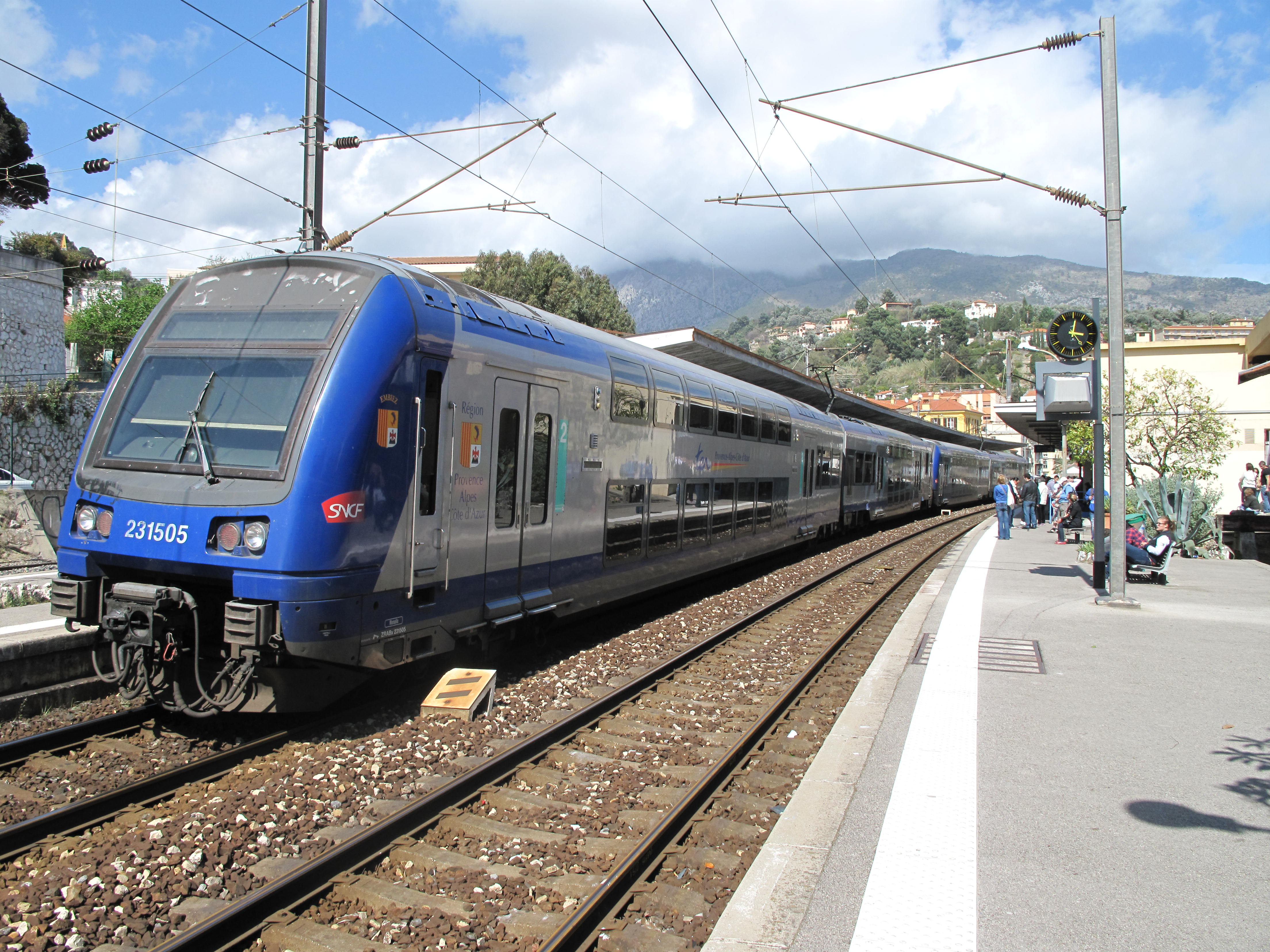 TER (Transport Express Regional) of the French region PACA (Provence Alpes Cote-d'Azur) in Menton train station (Alpes-Maritimes, France).